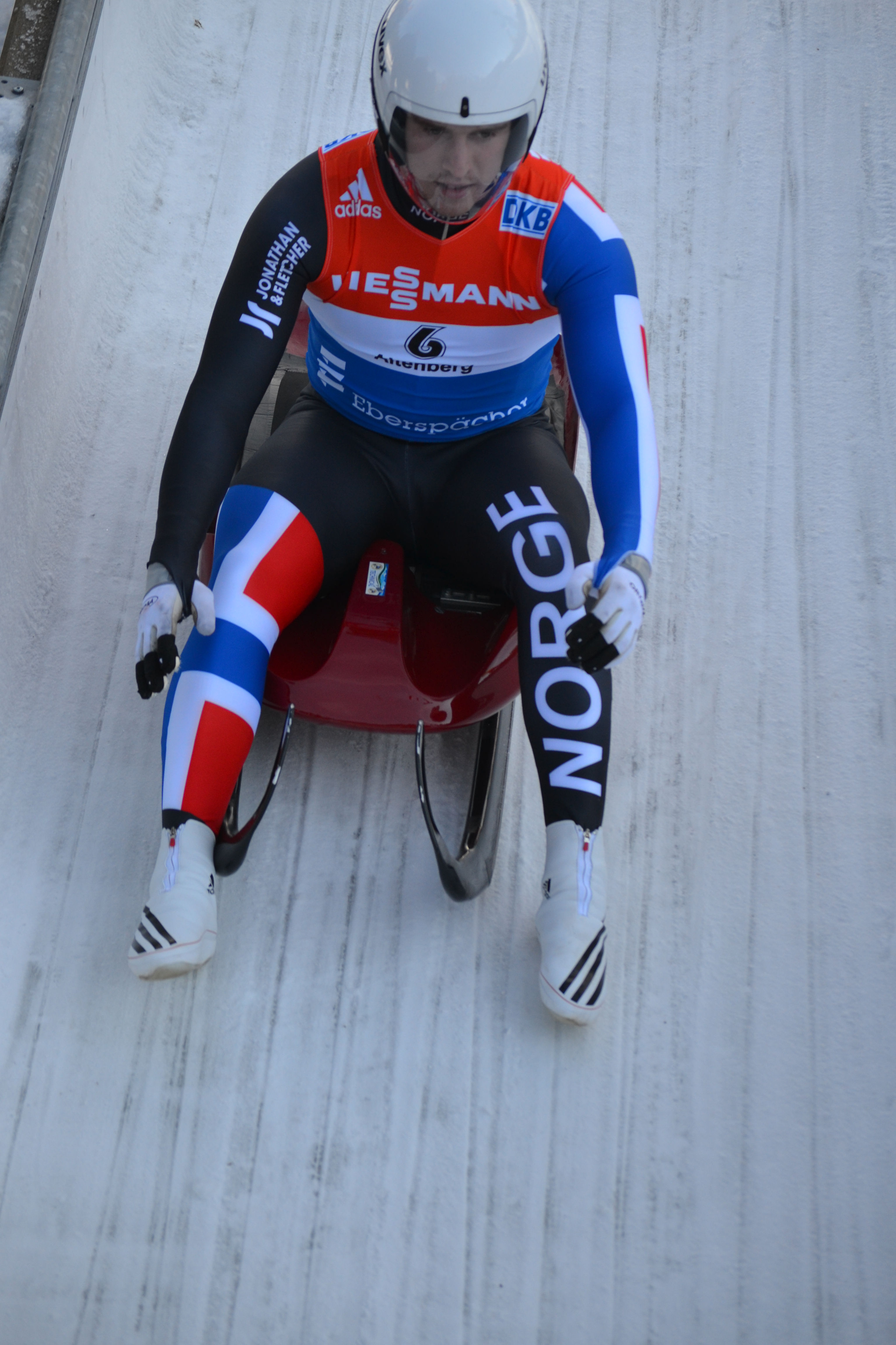 Luge world cup race season 2014/15 in Altenberg/Germany, 19th to 22nd Februar 2015. Day 3: Mens race.